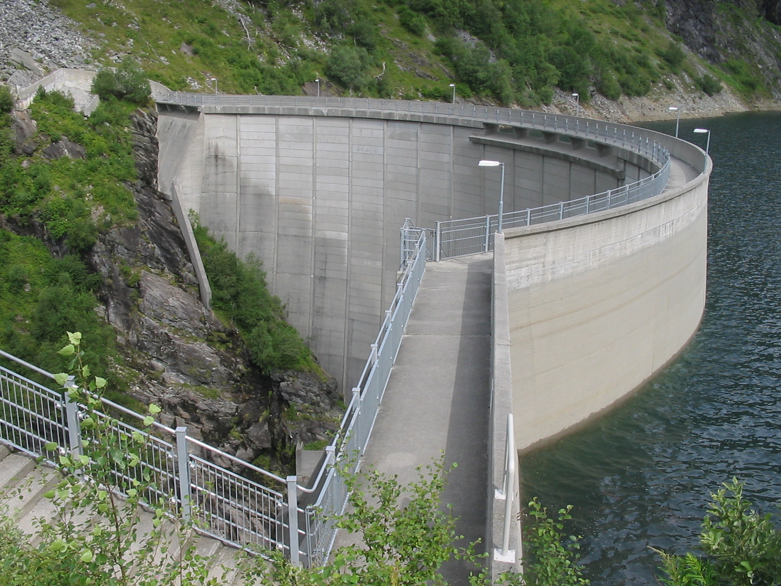 Zakariasdammen, hydroelectric power dam in Norddal kommune i Møre og Romsdal, Norway.